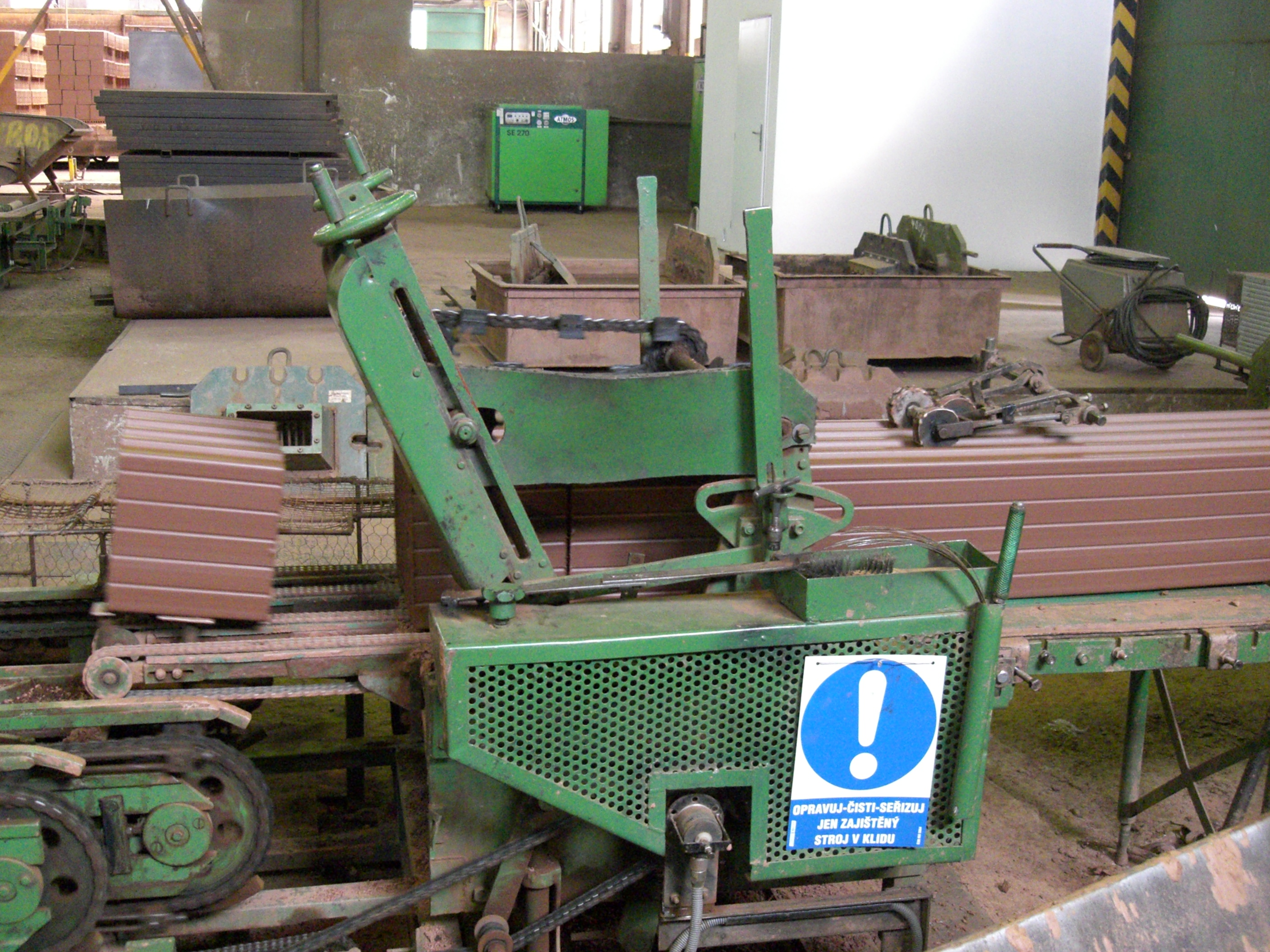 Brickyard in Kryry village, Czech Republic. Cutting.